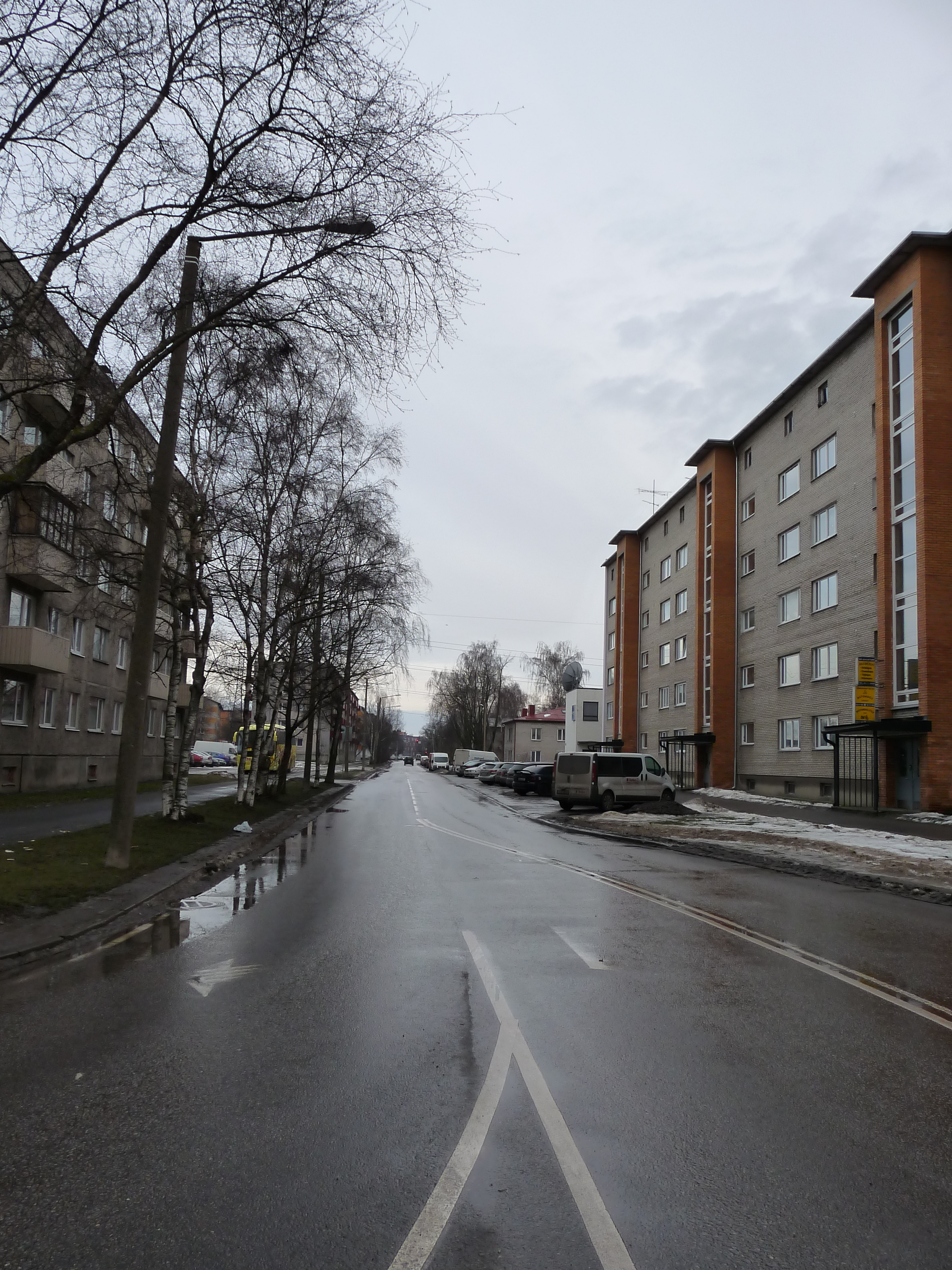 Koskla street in Tallinn, Estonia